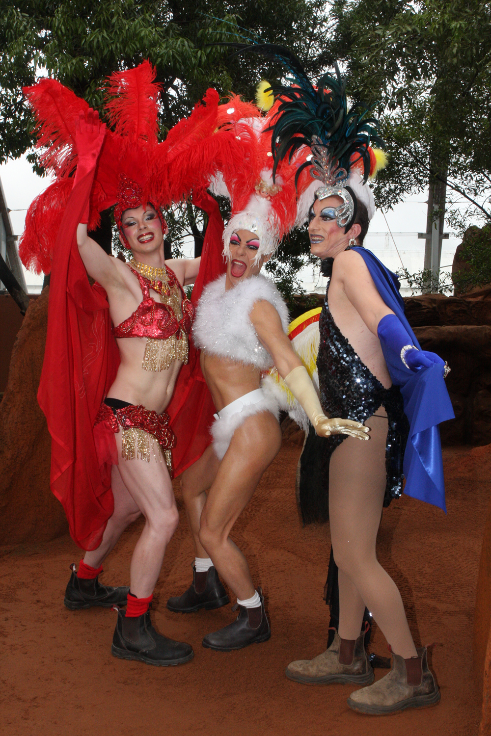 Madame Tussauds Sydney Madame unveils Guy Pearce wax figure Madame Tussauds Sydney this morning unveiled a wax figure of English-born Australian actor, Guy Pearce, for the first time. Pearce’s wax figure was flamboyantly dressed as his most well-known character, Felicia Jollygoodfellow. The latest figure to be revealed by Madame Tussauds Sydney was unveiled in The Outback at WILD LIFE Sydney to imitate scenes from Australian comedy drama, The Adventures of Priscilla, Queen of the Desert. Madame Tussauds is set to officially open its doors in Sydney’s Darling Harbour in May 2012. The Pearce wax figure joins a star-studded line up at Madame Tussauds Sydney including Johnny Depp, Nicole Kidman, Lady Gaga, Dannii Minogue, Ray Meagher, Hugh Jackman and Amanda Keller. Stephan Elliot, Director of The Adventures of Priscilla, Queen of the Desert and Kristy Enright, Madame Tussauds Sydney spokesperson were also on hand to oversee the latest media event, as Madame Tussauds gets everything ready for the public at large. Websites Madame Tussauds Sydney Hausmann Communications Eva Rinaldi Photography Flickr Eva Rinaldi Photography Splash News